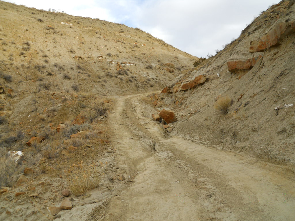 Example of common problem with Missouri Breaks roads -- the washout.